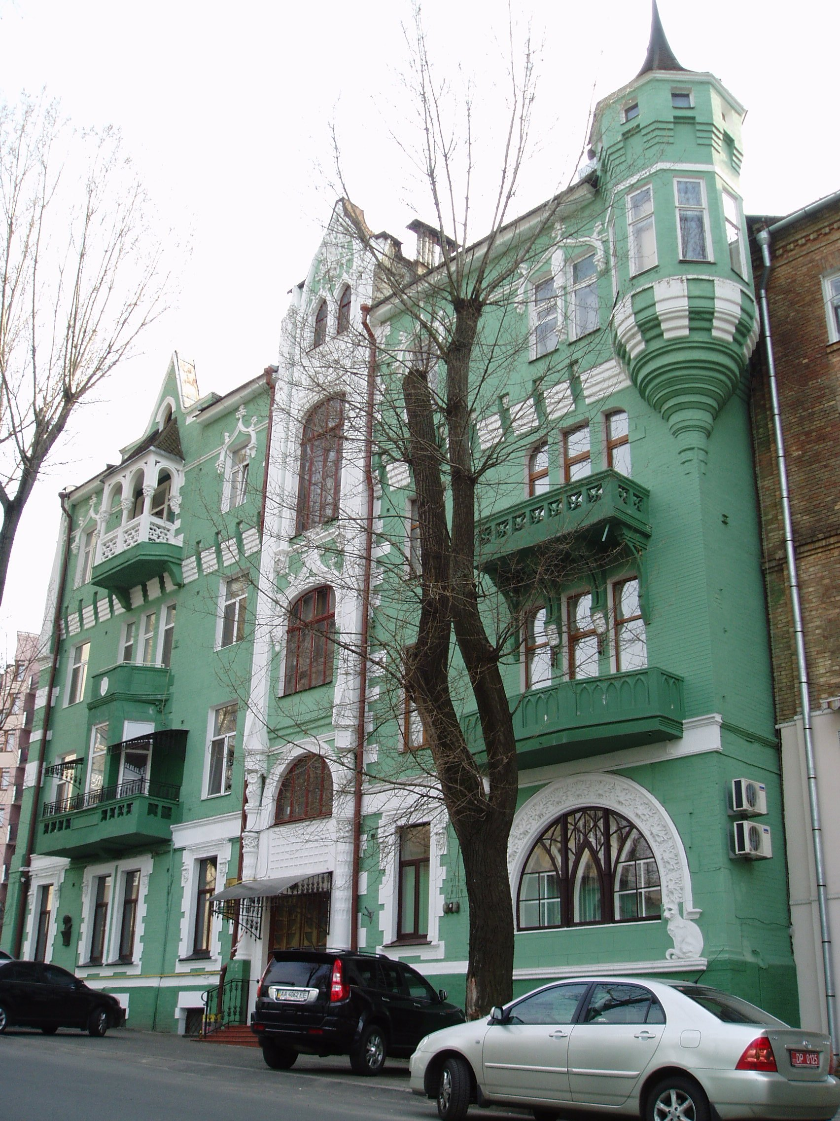 A photo of the so-called House with cats in Kyiv, Ukraine. The building bears such name, because of the two cats that decorate the front of the House